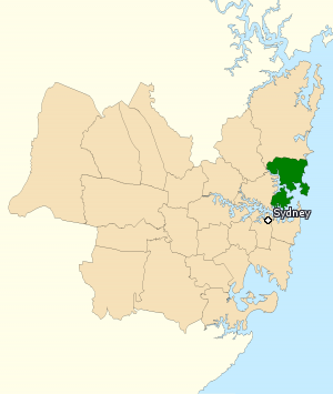 This image incorporates data that is: © Commonwealth of Australia (Australian Electoral Commission) 2009 Division of Warringah 2010